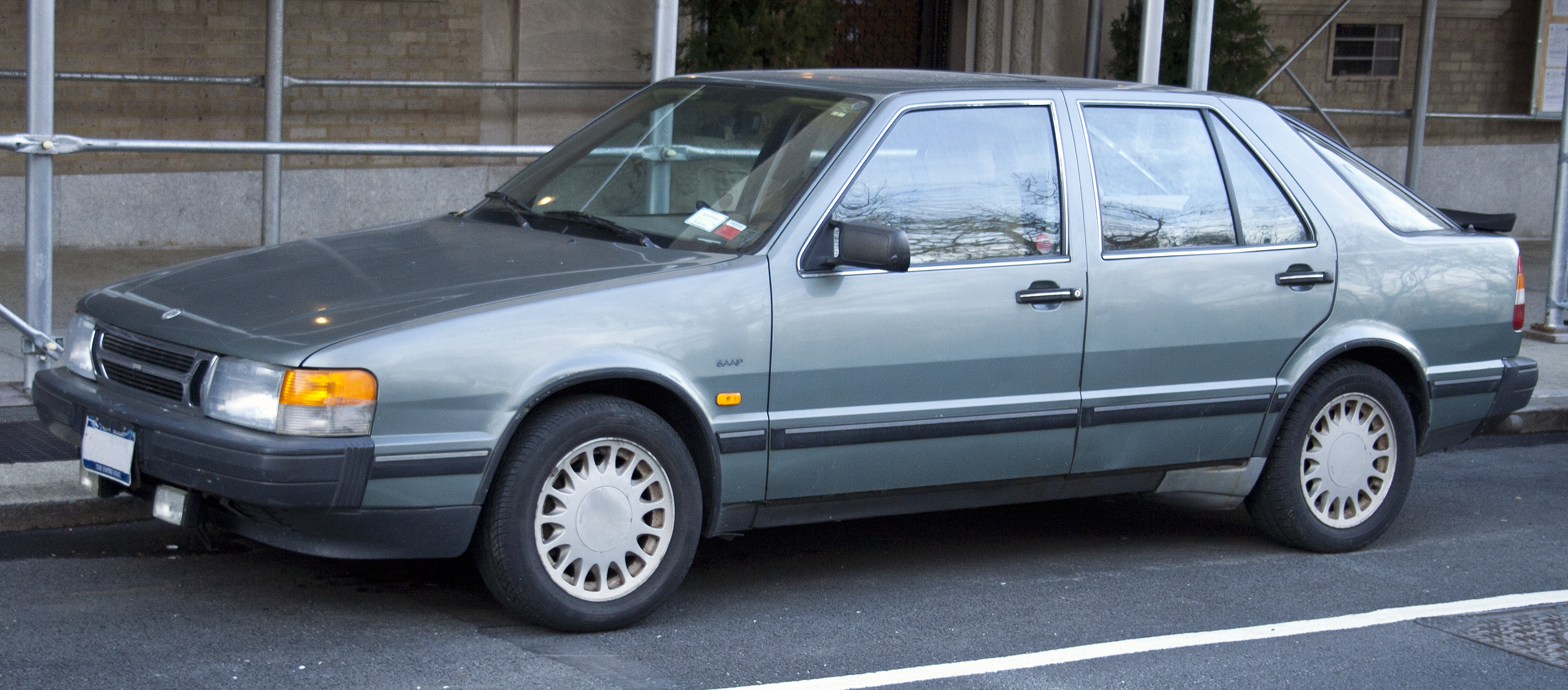 1988 Saab 9000 Turbo, with the classic pre-facelift front